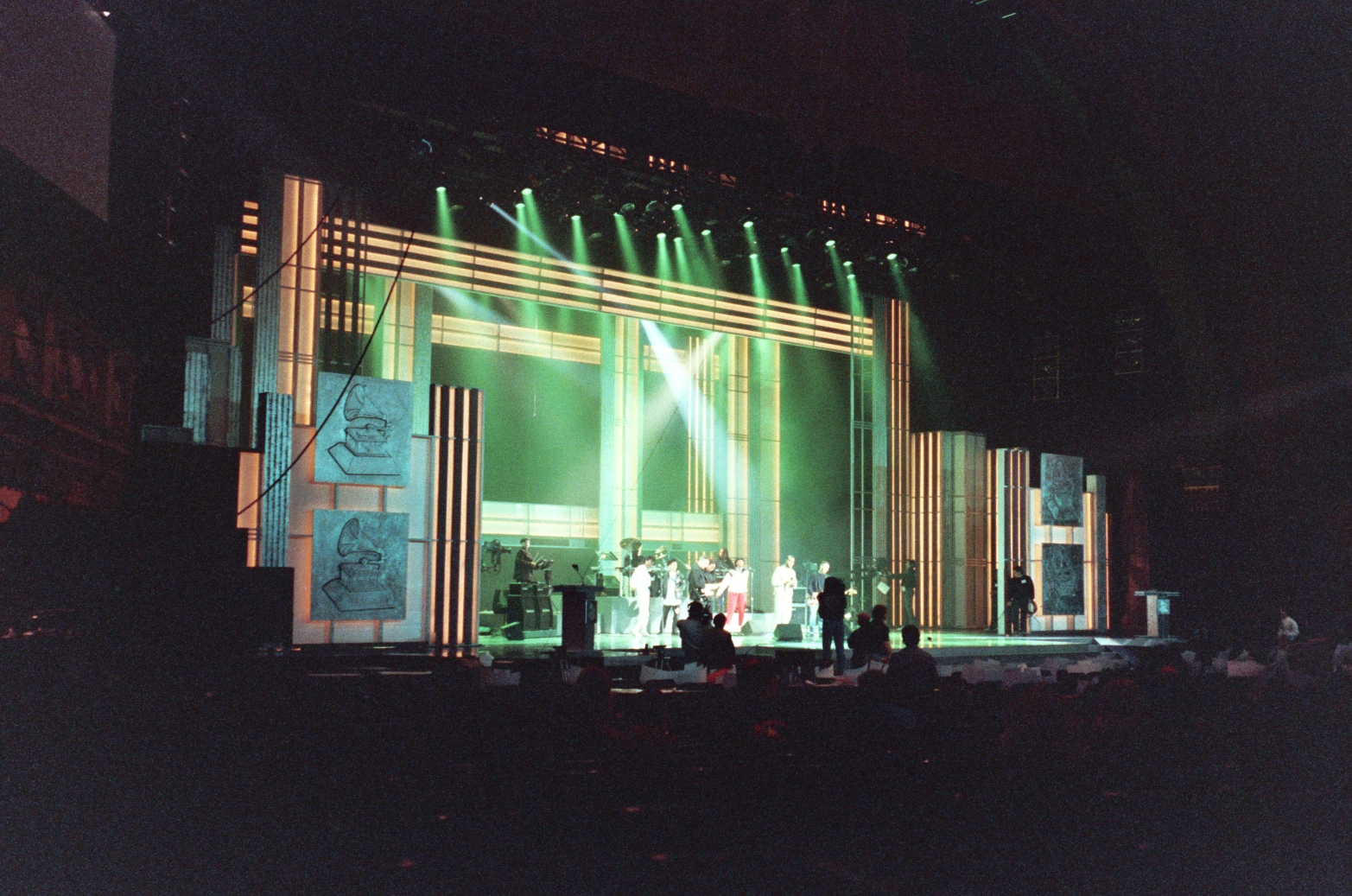 1990 Grammy Awards NOTE: Permission granted to copy, publish, broadcast or post any of my photos, but please credit "photo by Alan Light" if you can. Thanks. Scanned from the original 35MM film negative.